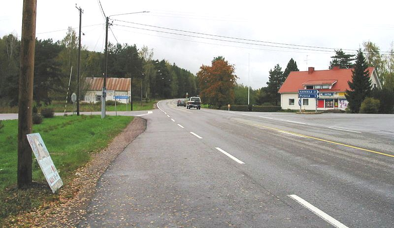 Hyönölä, Nummi-Pusula, Brynolf Poutanen Shop to the right